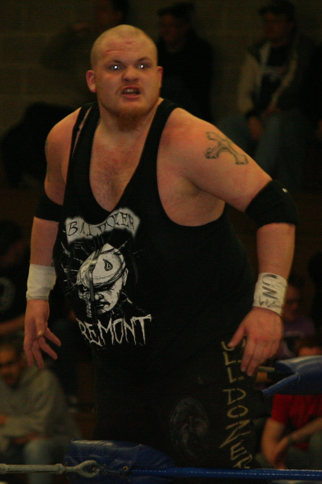 Matt Tremont before a match at the 2013 National Pro Wrestling Day. Cropped from original image.